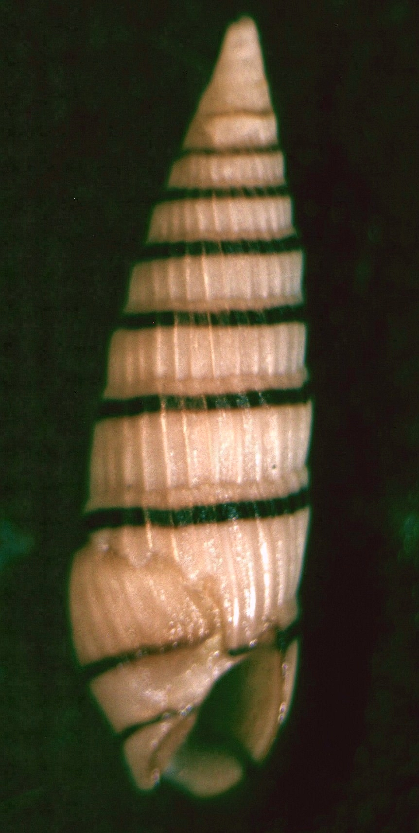 Terenolla pygmaea (Hinds, 1844) , an auger snail from the family Terebridae; Philippines